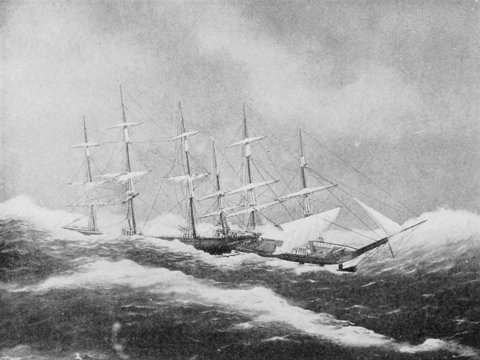 The rescue of the clipper ship Tejuca's crew by the ship Excelsior (right) during a hurricane on the Atlantic in January 1856. Excelsior's captain was later given an award for gallantry for the rescue. Tejuca was a small 470-ton clipper ship built in Hoboken, New Jersey in 1854. From a painting by Thomas Pitman.